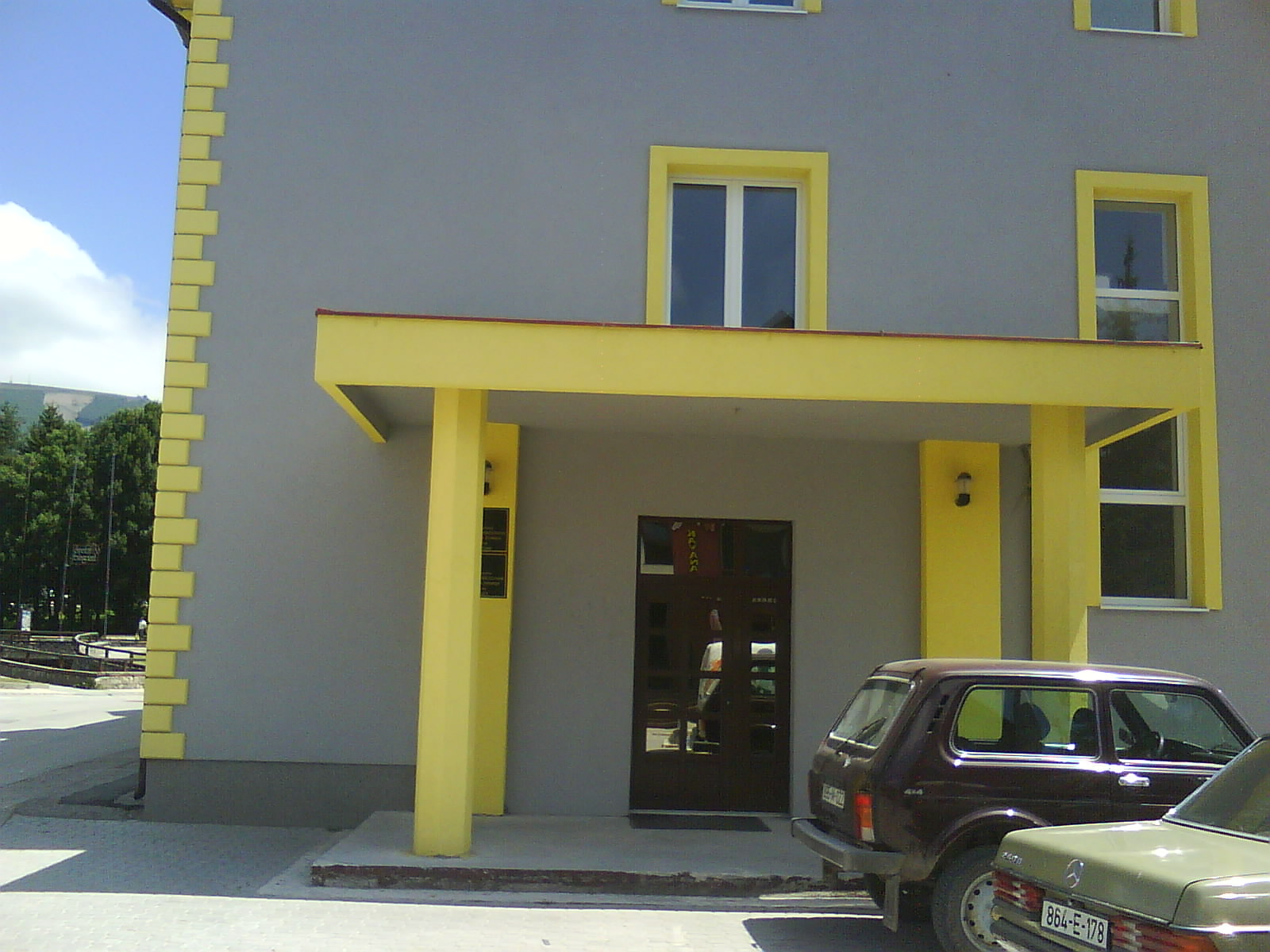 Municipality building in Kupres }